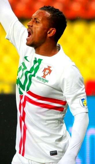 Nani 2012